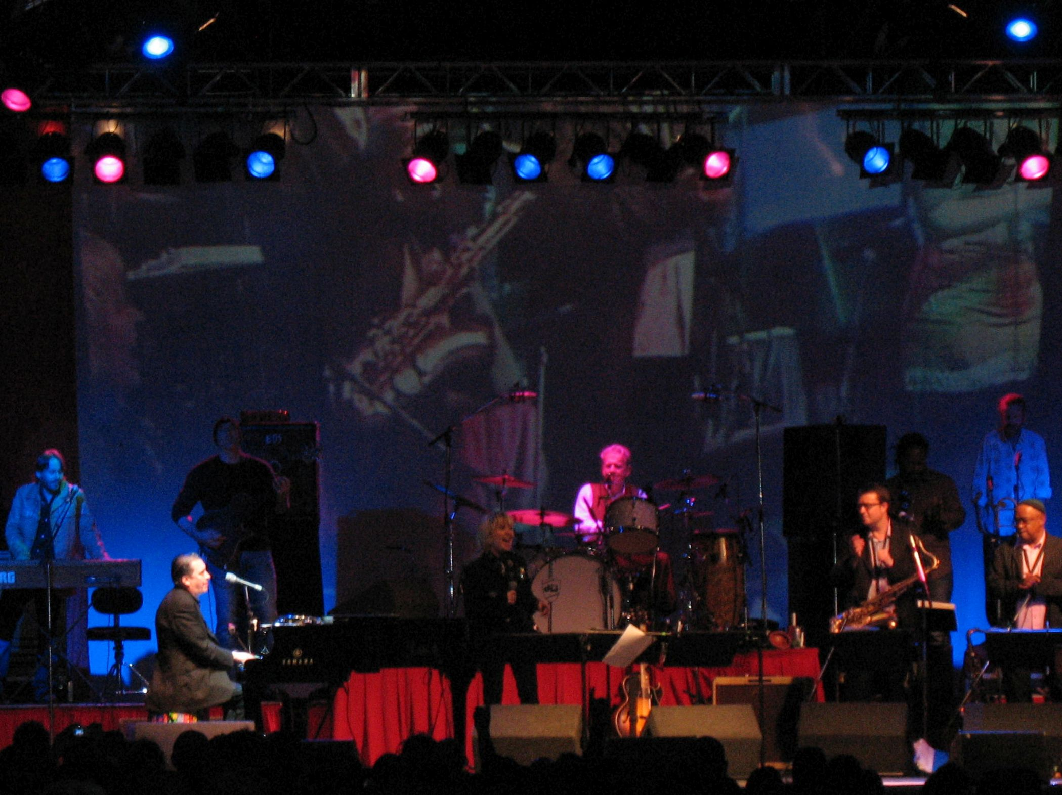 Jools Holland concert at Borde hill on June 23rd 2007 with guest star, Lulu.